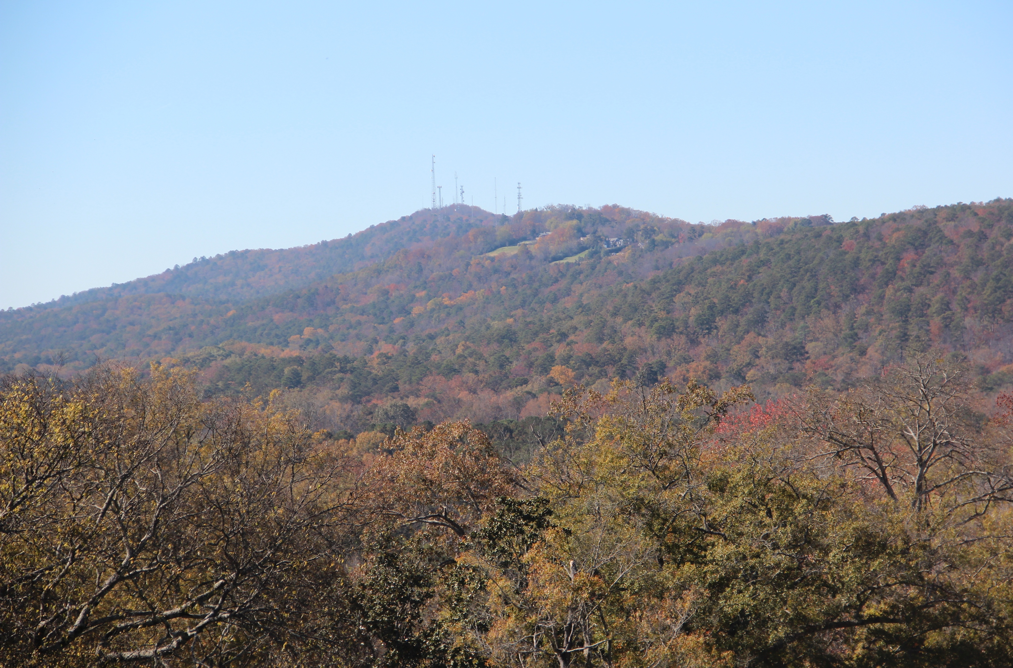 Horseleg Mountain (Mount Alto) viewed from Myrtle Hill Cemetery